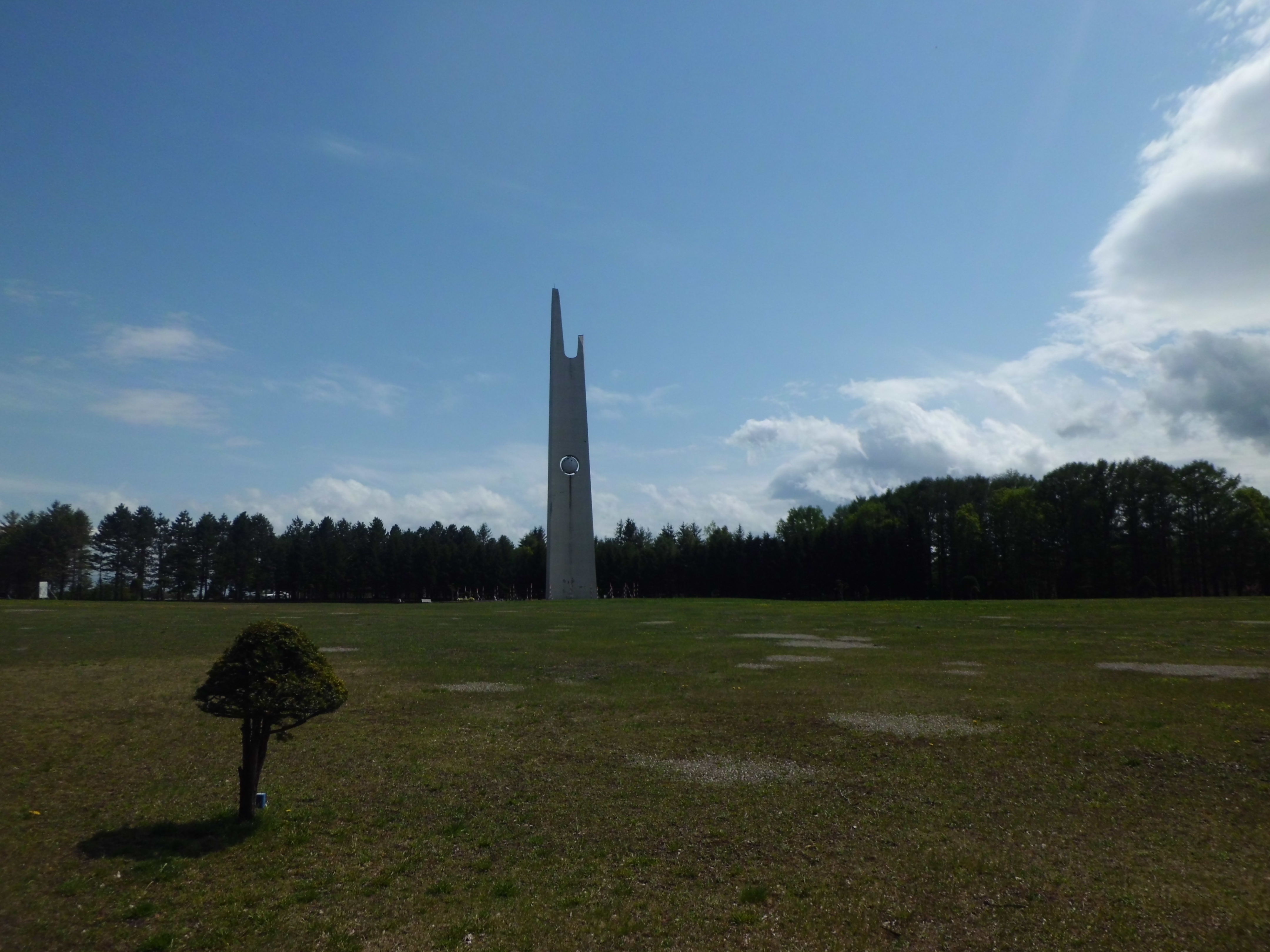 Satozuka Cemetery